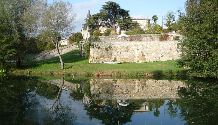 Chateau Lagorce